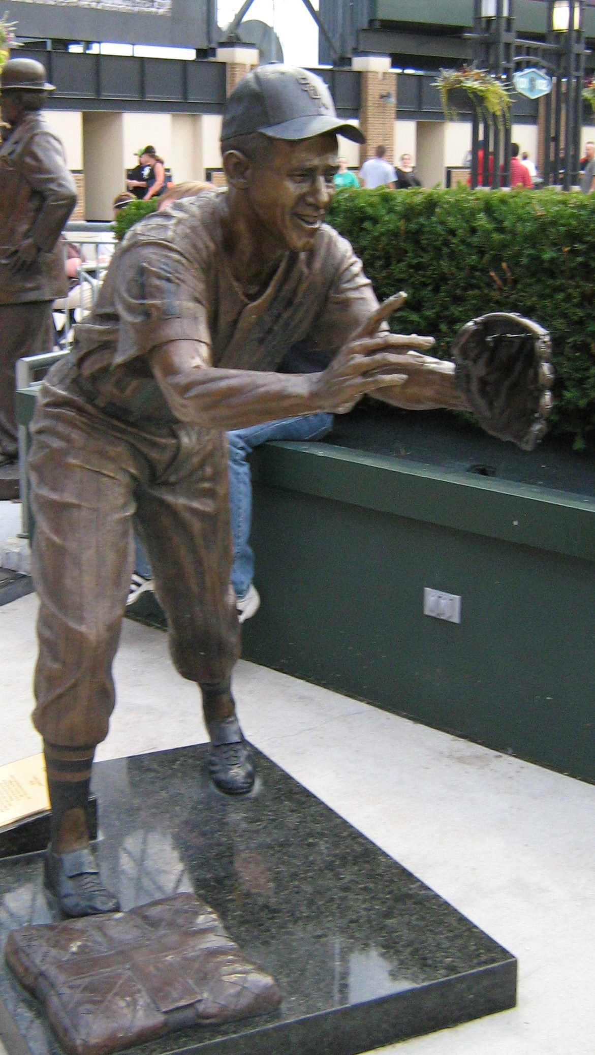 Photo of Luis Aparicio, cropped